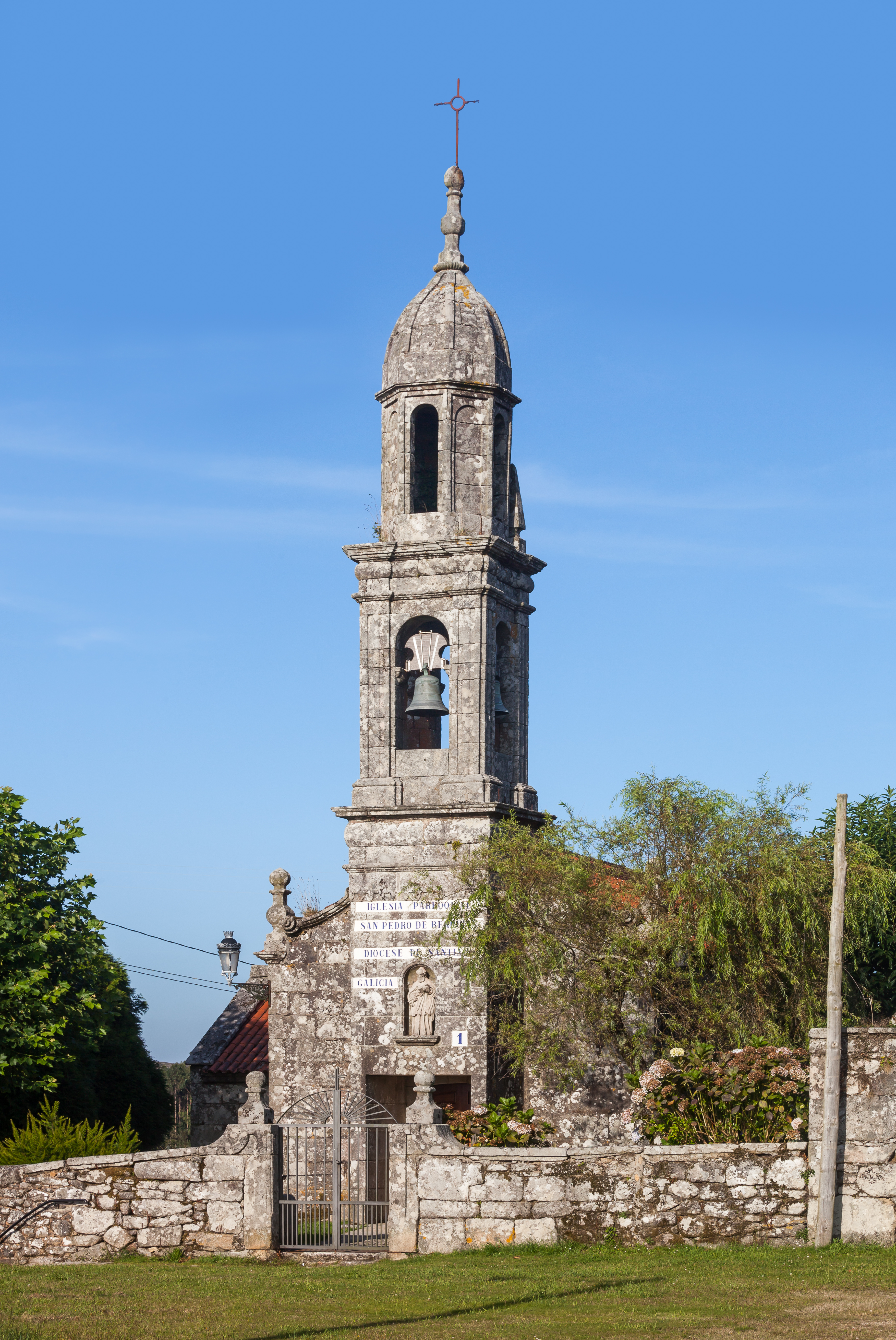 Church of Saint Peter, church of Saint Peter of Berdoias, Galicia (Spain) - Google Maps - Google Earth